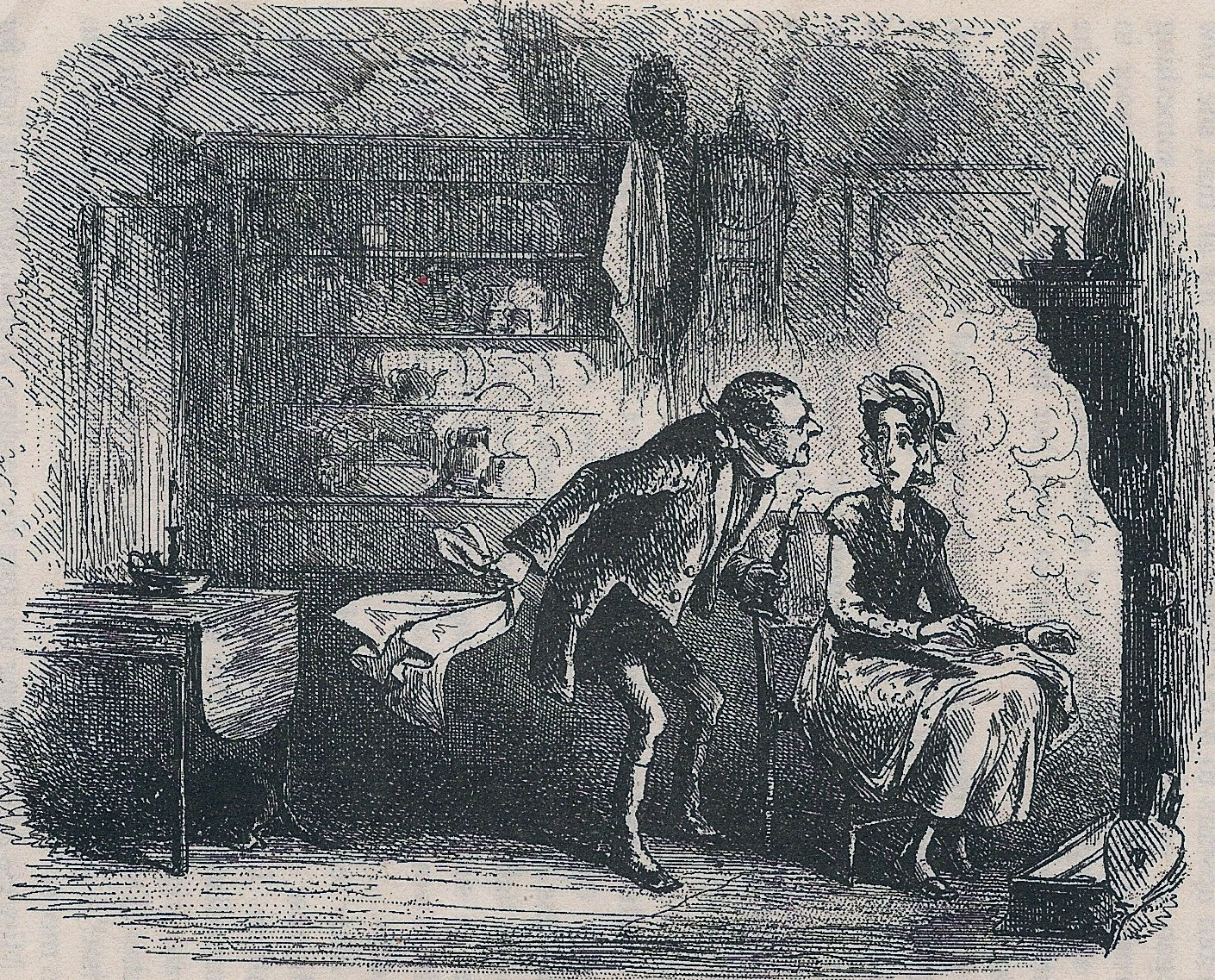 Little Dorrit, Mr and Mrs Flintwinch, by Hablot K. Browne